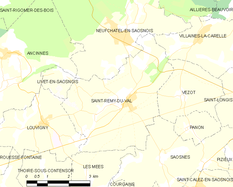 Map of French municipality